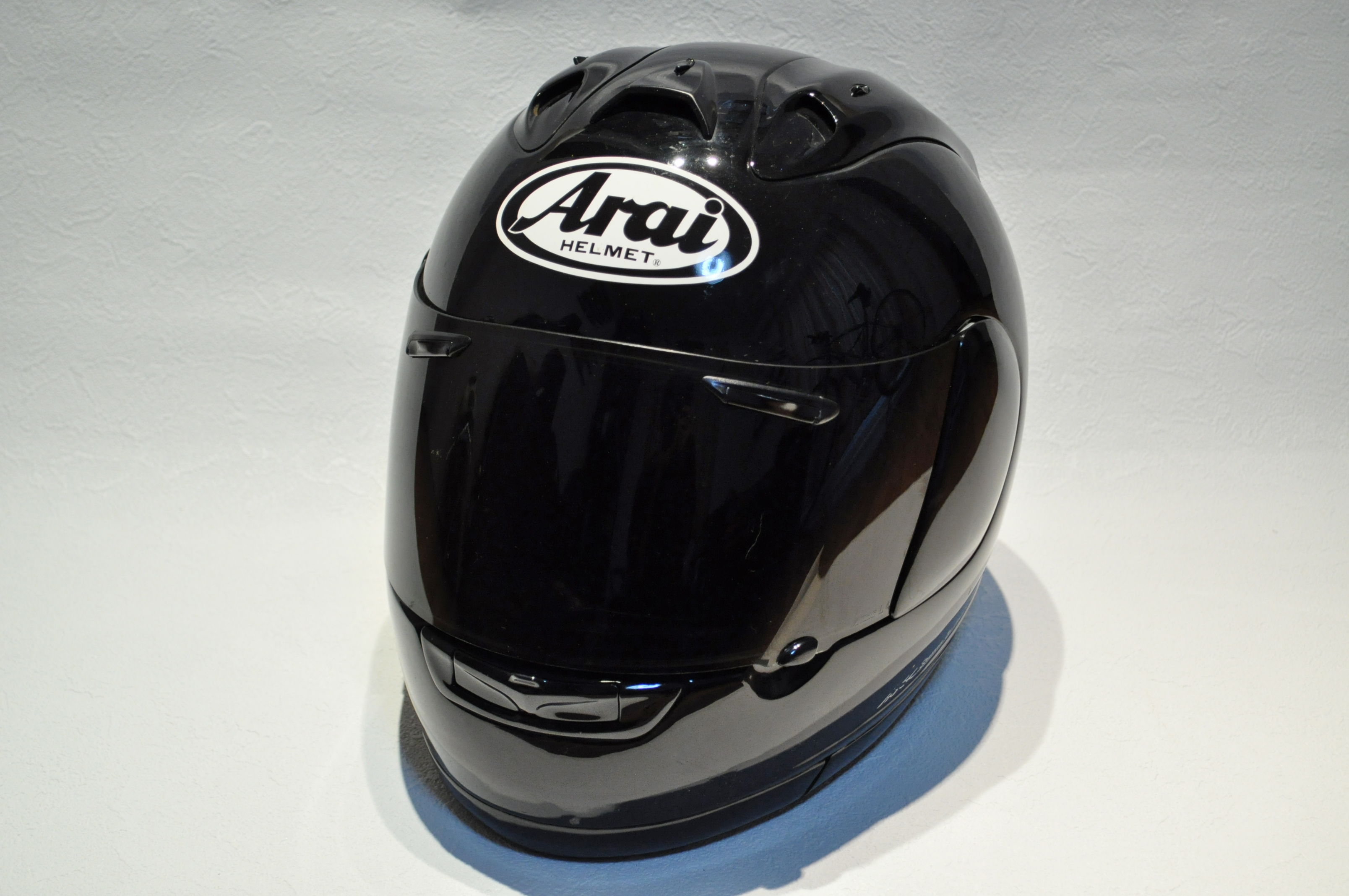 Arai Helmet RX-7RR4